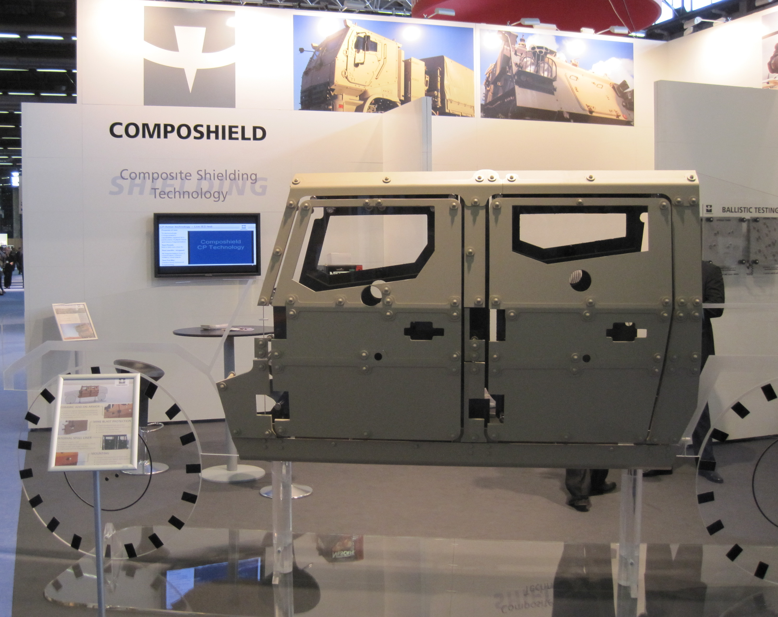 Composite add-on armor kit manufactured by Composhield for UROVESA Vamtac .